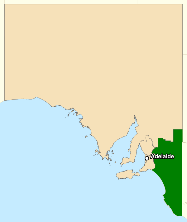 The Division of Barker (dark green) in the state of South Australia. This image incorporates data that is: © Commonwealth of Australia (Australian Electoral Commission) 2014